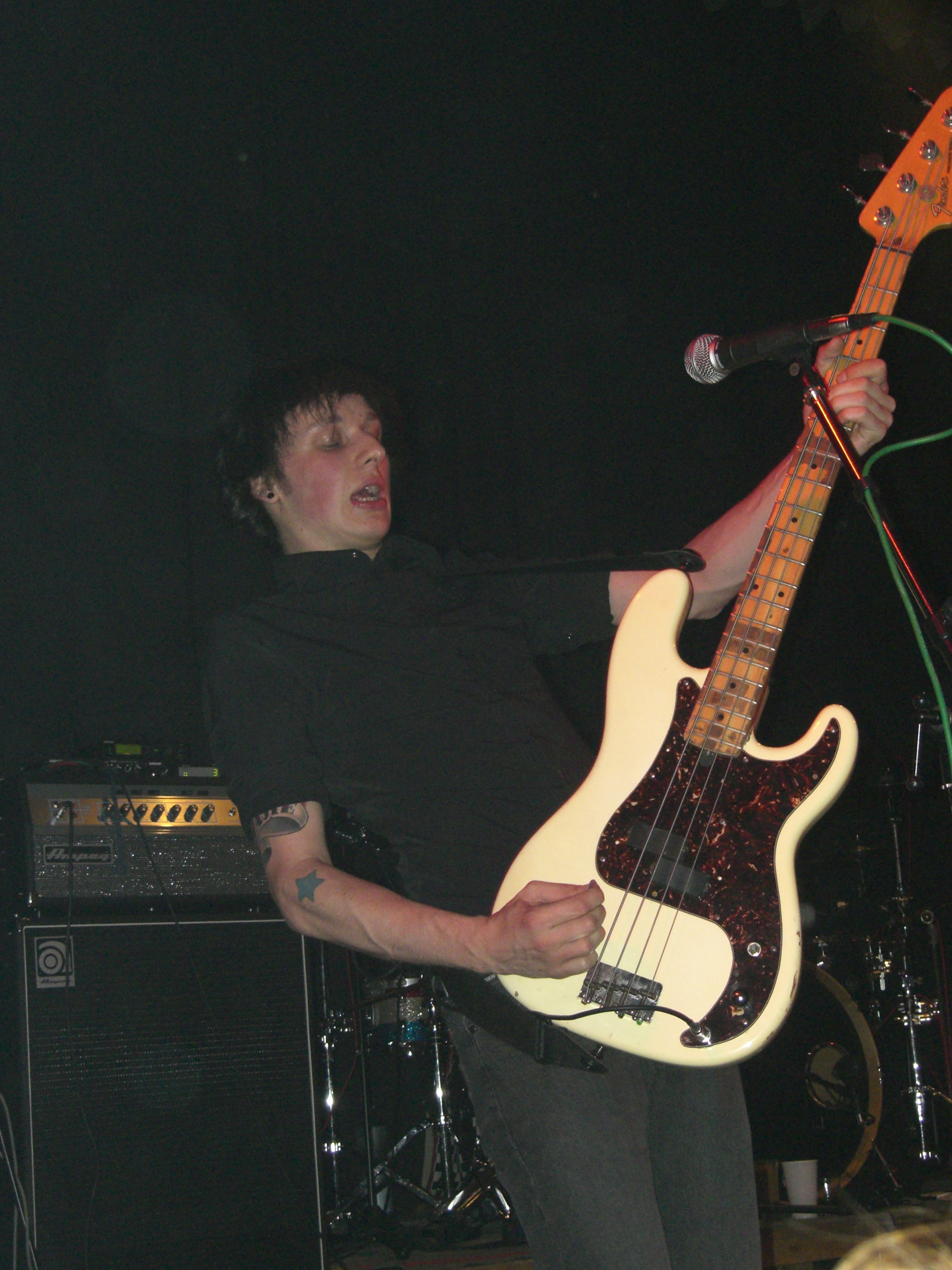 Czech music band Clou - Divadlo pod Čarou, Písek